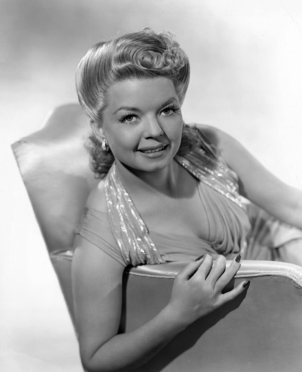 Photo of singer-actress Frances Langford.